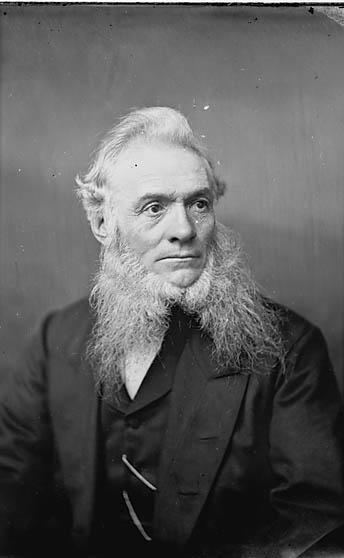 1 negative : glass, wet collodion, b&w ; 11 x 16.5 cm.